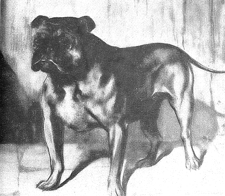 Old Kng Dick (English Bulldog)